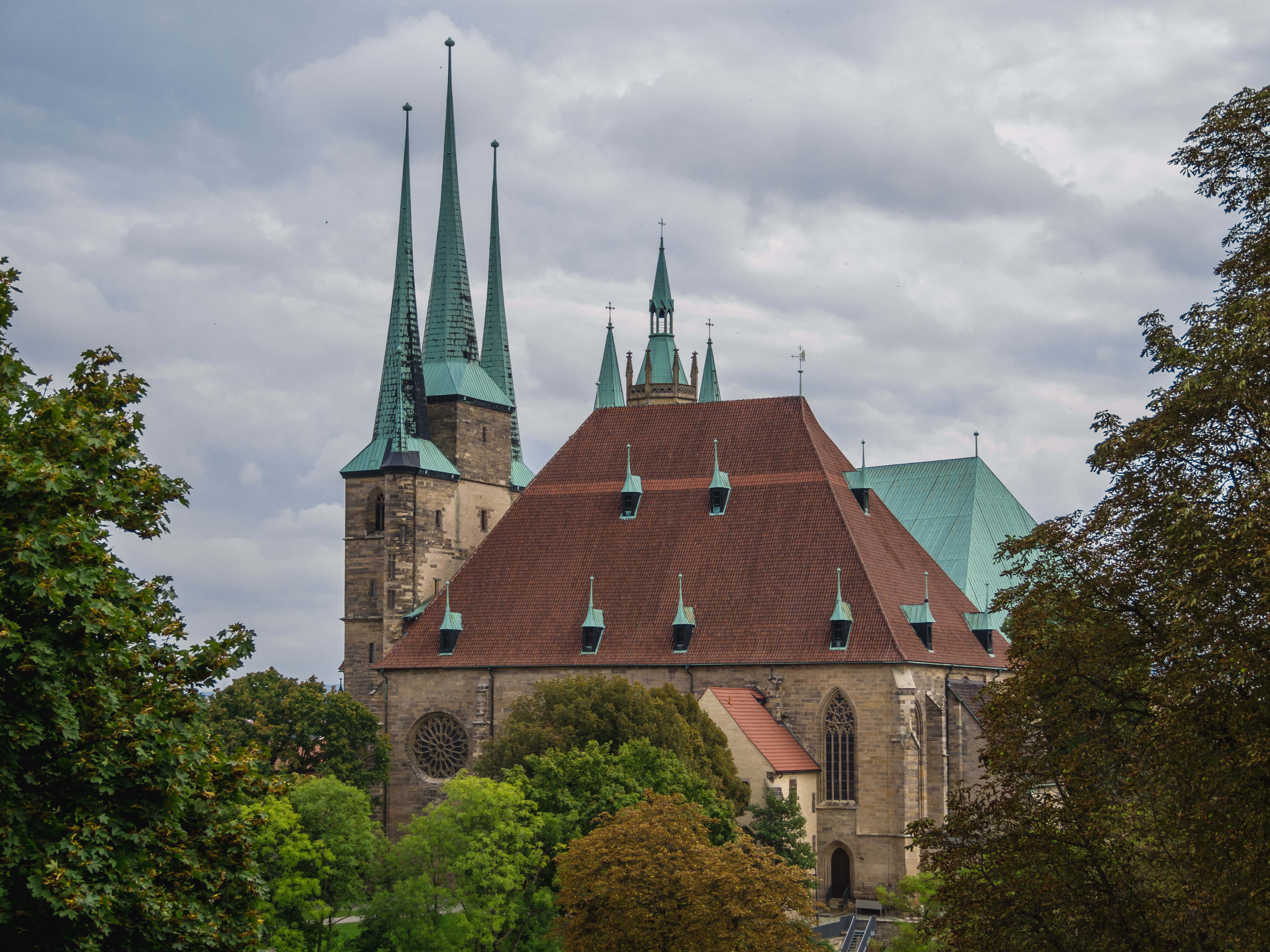 WLM-Fototour Erfurt 2014 Dieses Foto wurde im Rahmen der WLM-Fototour 2014 in Erfurt erstellt, die vom 29. bis 31. August 2014 zum Auftakt des Wettbewerbs Wiki Loves Monuments 2014 statt fand. The making of this document was supported by the Community-Budget of Wikimedia Germany. Erfurter Dom mit Details